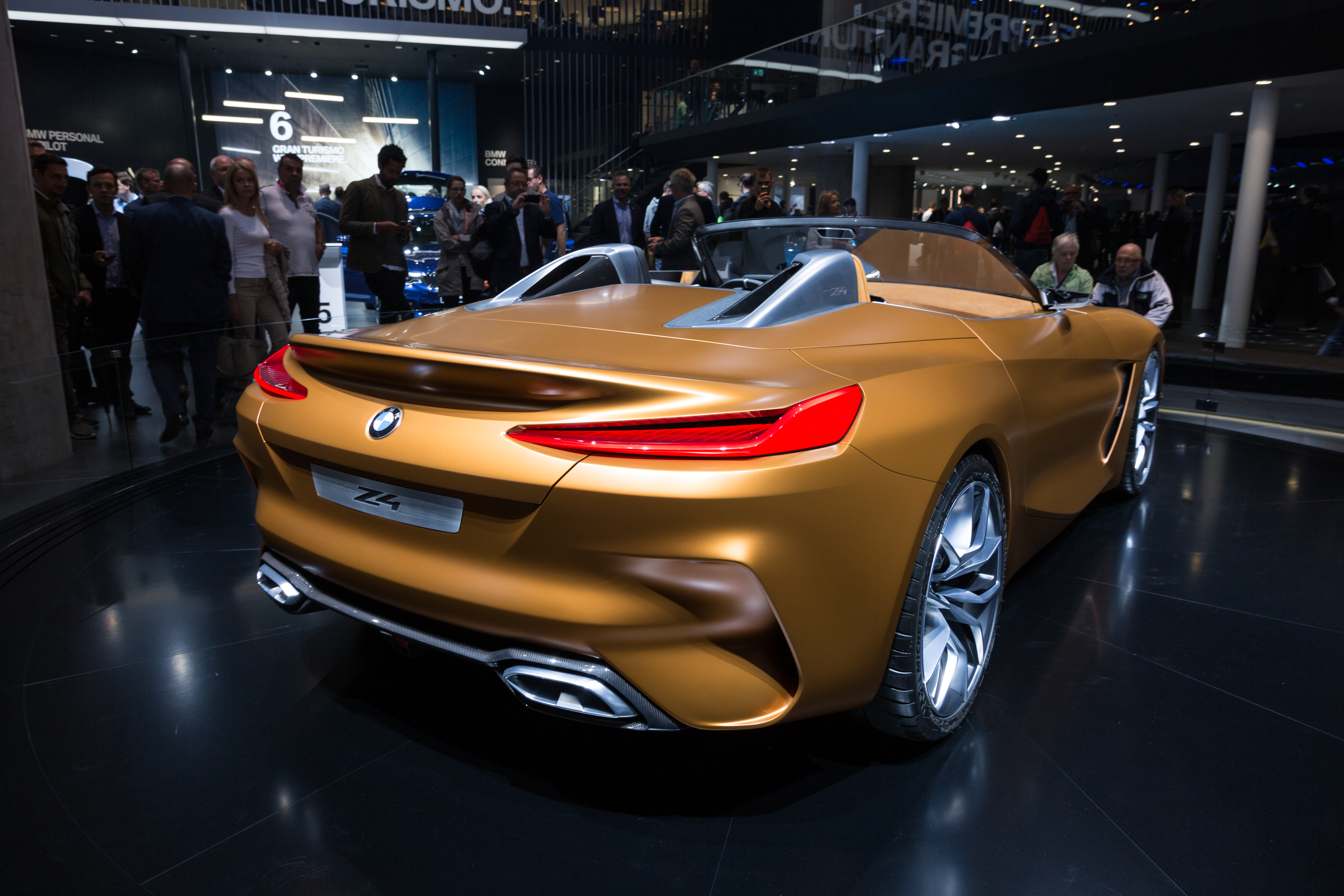 BMW Concept Z4